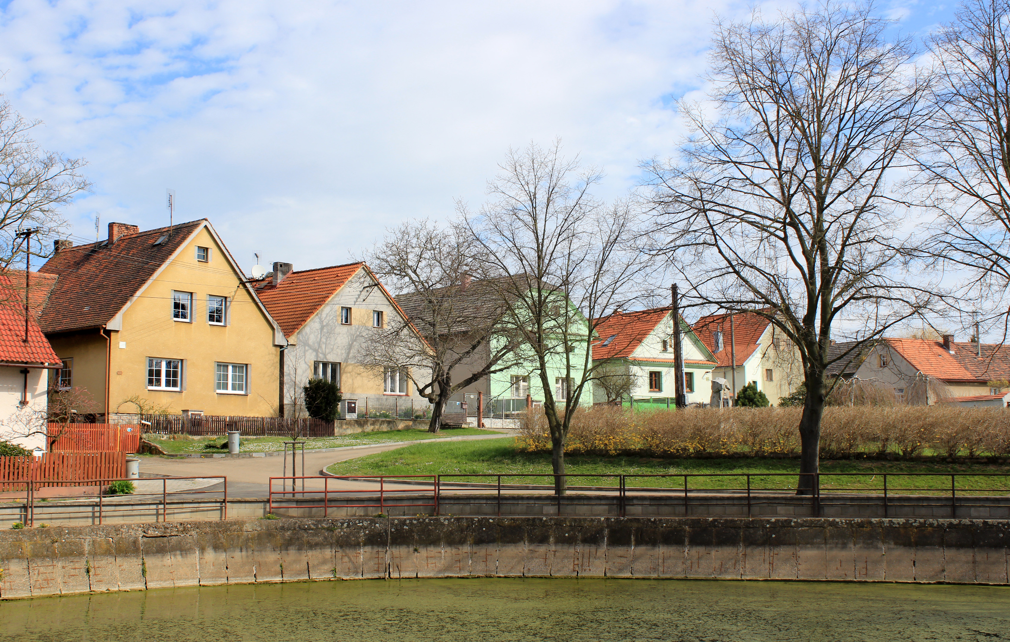 Common in Litohlavy, Czech Republic.